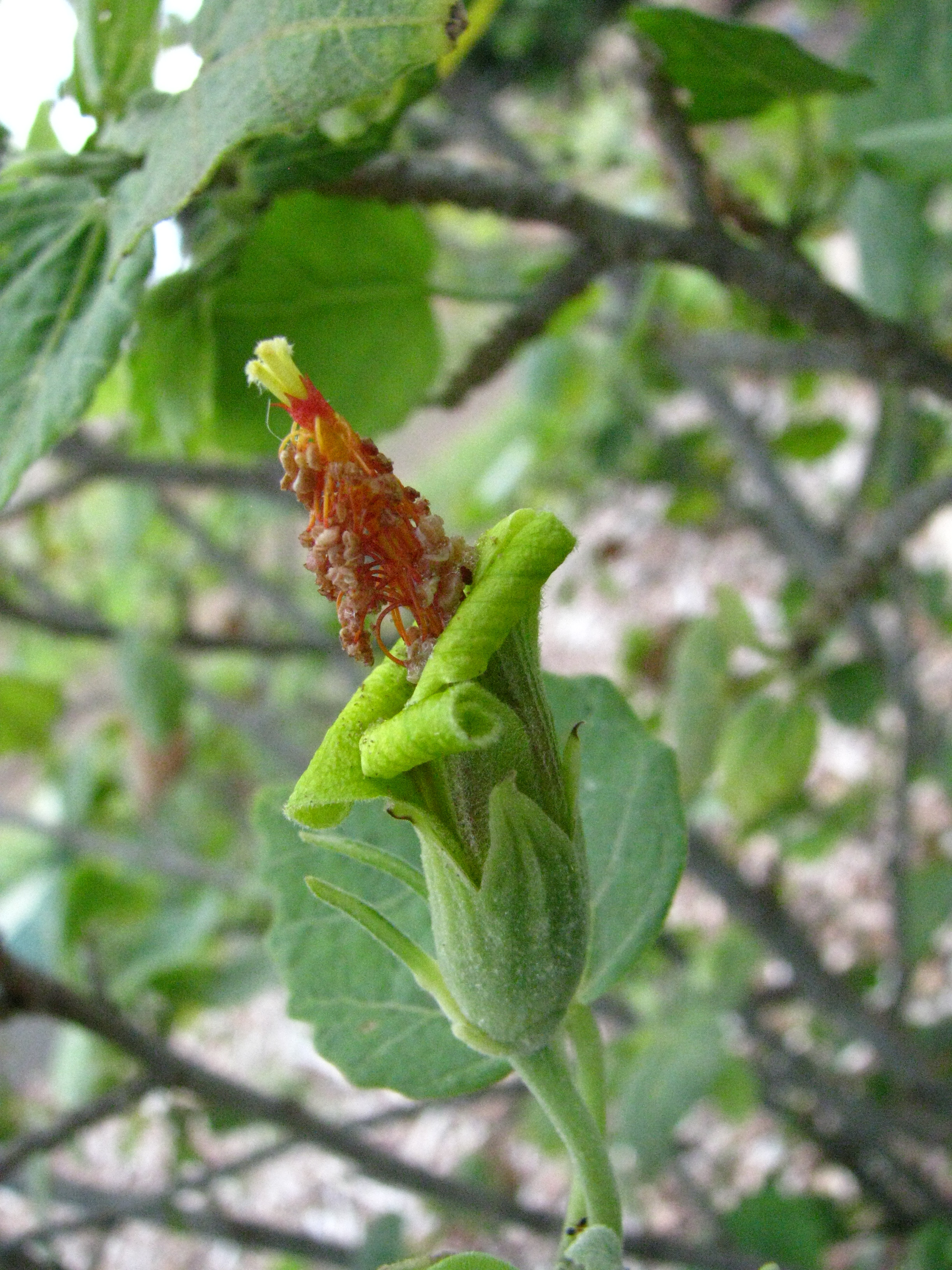 Hau kuahiwi or Kauaʻi hau kuahiwi Malvaceae Endemic to the Hawaiian Islands Endangered Oʻahu (Cultivated)